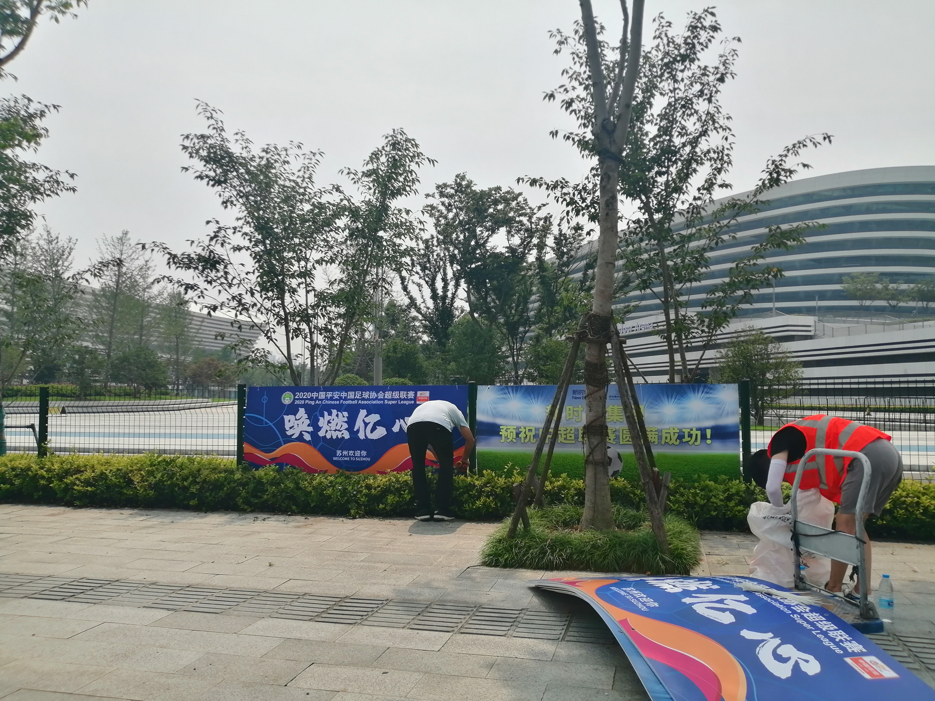 Workers posted the poster, to welcome the CSL (Chinese Super League) players.